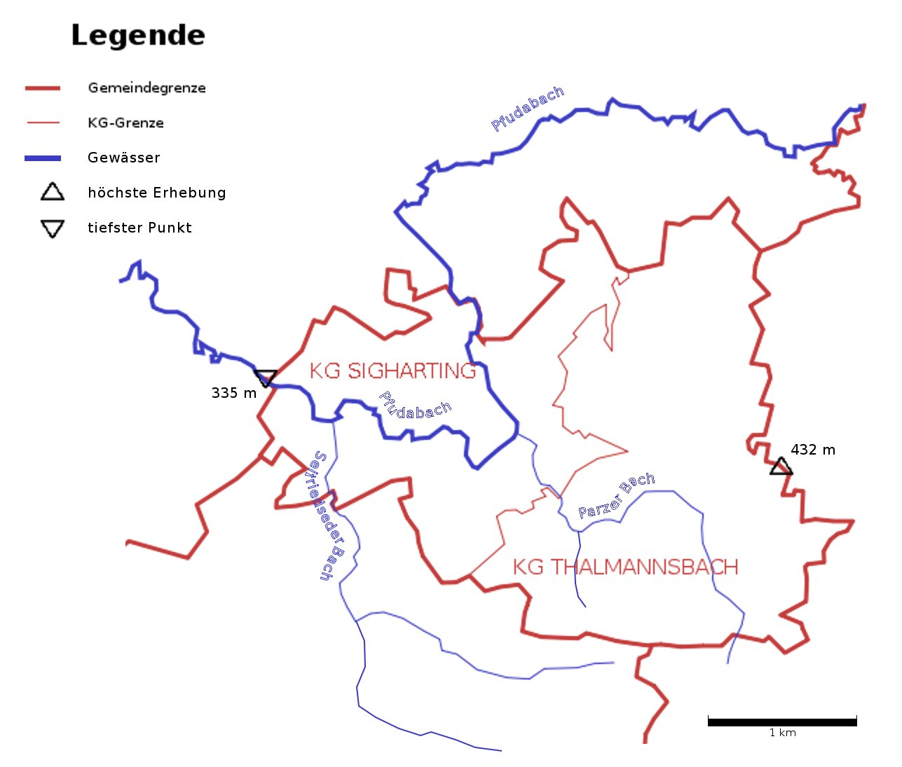 Map of water bodies of Sigharting municipality